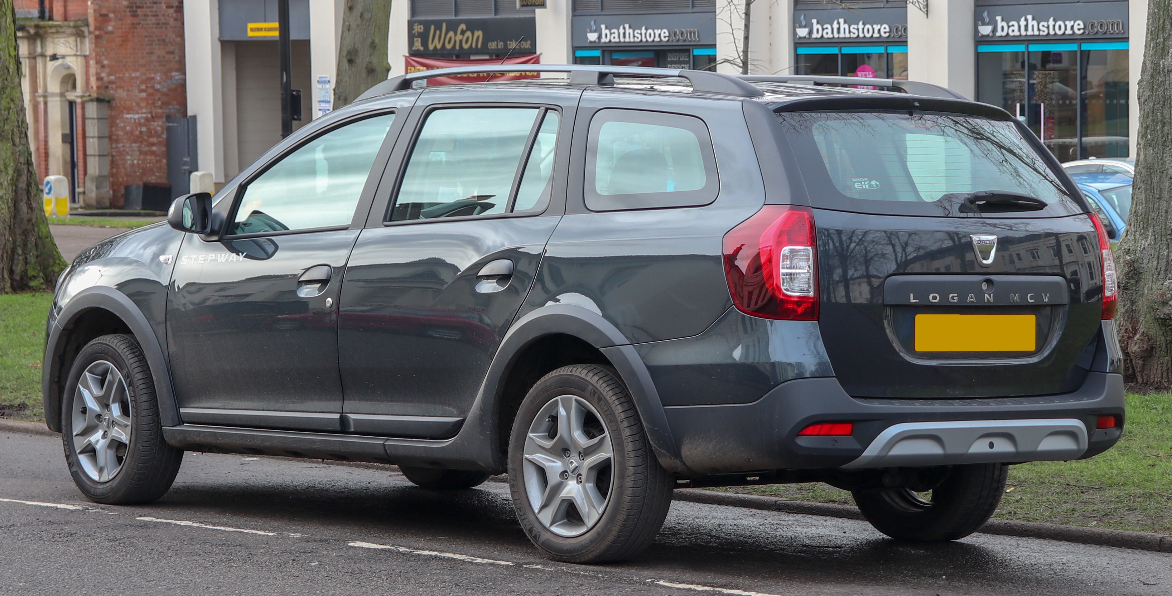 2018 Dacia Logan MCV Stepway Comfort 900cc Rear Taken in Leamington Spa